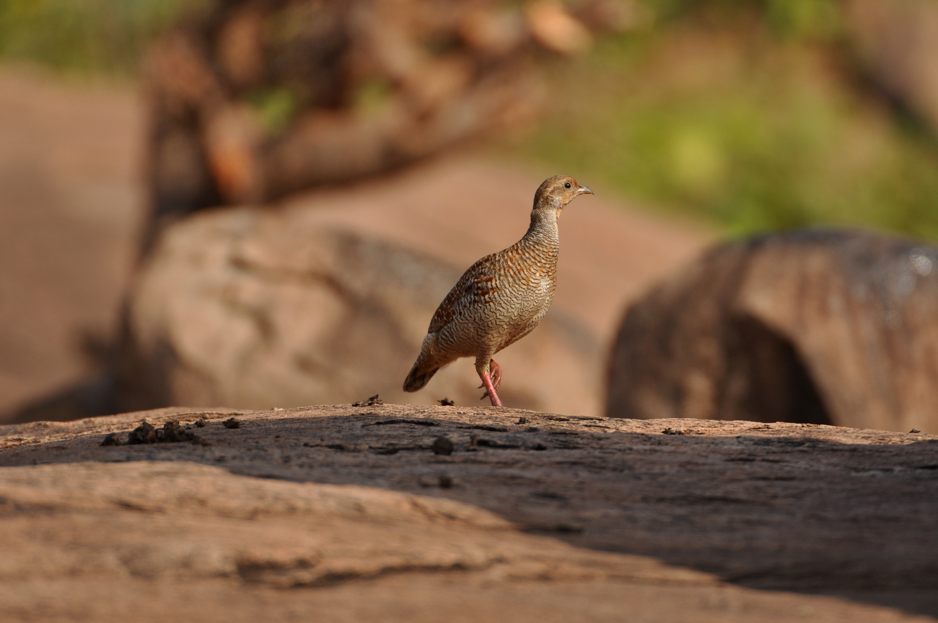 Grey Francolin in Karnataka